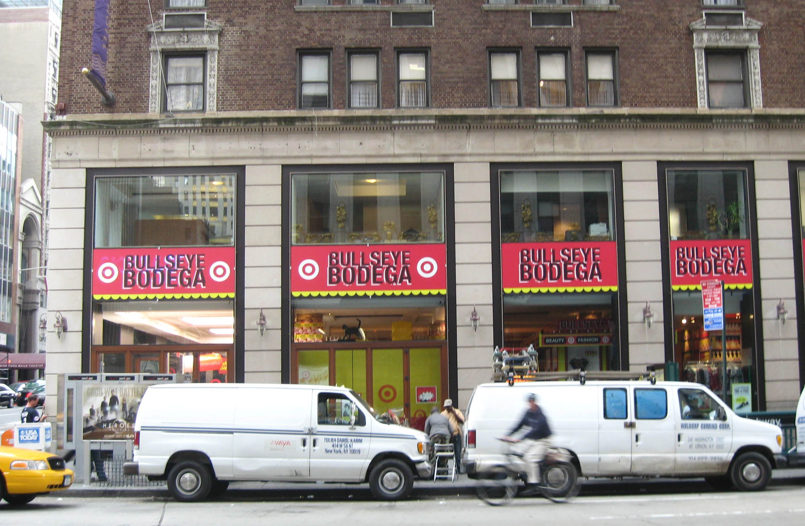 Looking west at Target_Corporation#Subsidiaries Bullseye Bodega shop on northwest corner of 6th Avenue and en:57th Street (Manhattan).